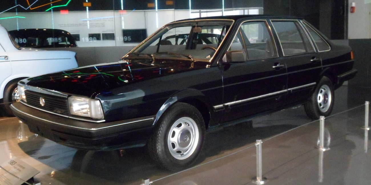 1983 Volkswagen Santana photographed at the Shanghai Automobile Museum, Anting, China.